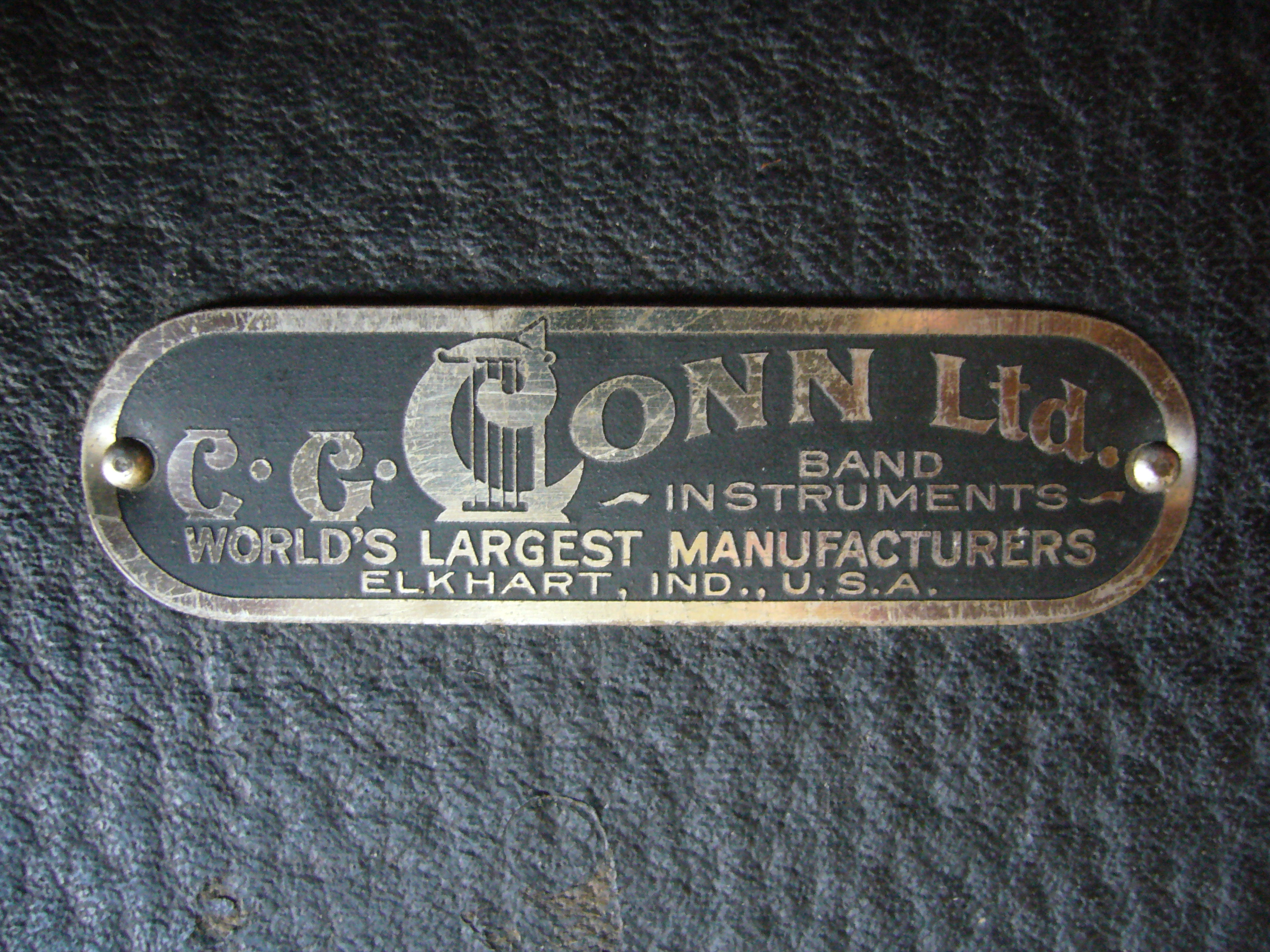 Trademark for C.G.Conn Ltd, seen on a saxophone case dating from the early 1920s. NOTE:- the logo dates from the early 1920s and is no longer used because the company in question (C.G. Conn) no longer exists. This logo hasn't been used since the early 1930s. Therefore, there is absolutely no reason for deleting this photo.